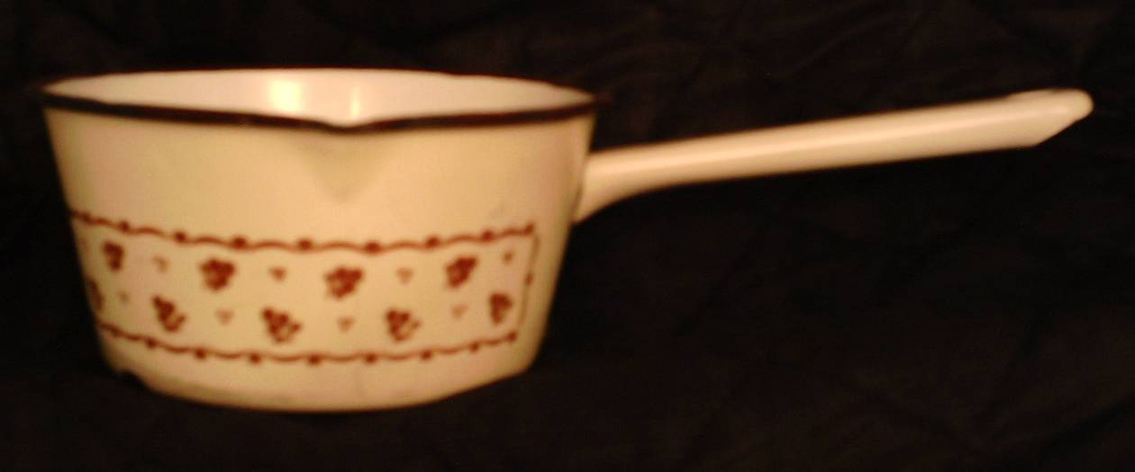 Saucepan with one long handle, about 15 cm diameter, yellow enamel with brown designs and blue upper rim, a cheap import from China into Europe of the 1980s.